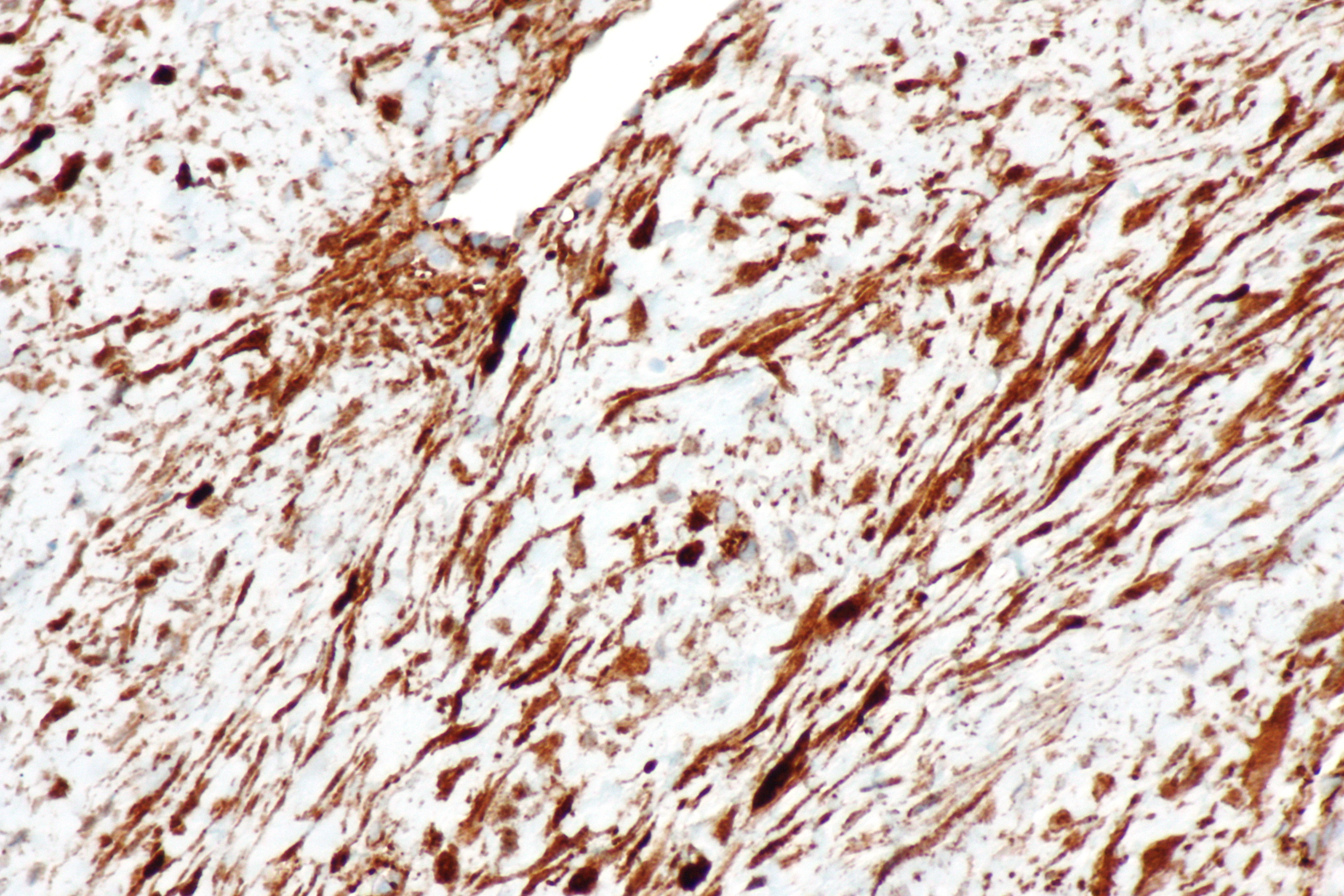 Micrograph of a desmoid tumour. H&E stain/Beta-catenin IHC. Related images DT - very low mag. DT - low mag. DT - intermed. mag. DT - intermed. mag. DT - high mag. DT - very high mag. DT - intermed. mag. DT - high mag.